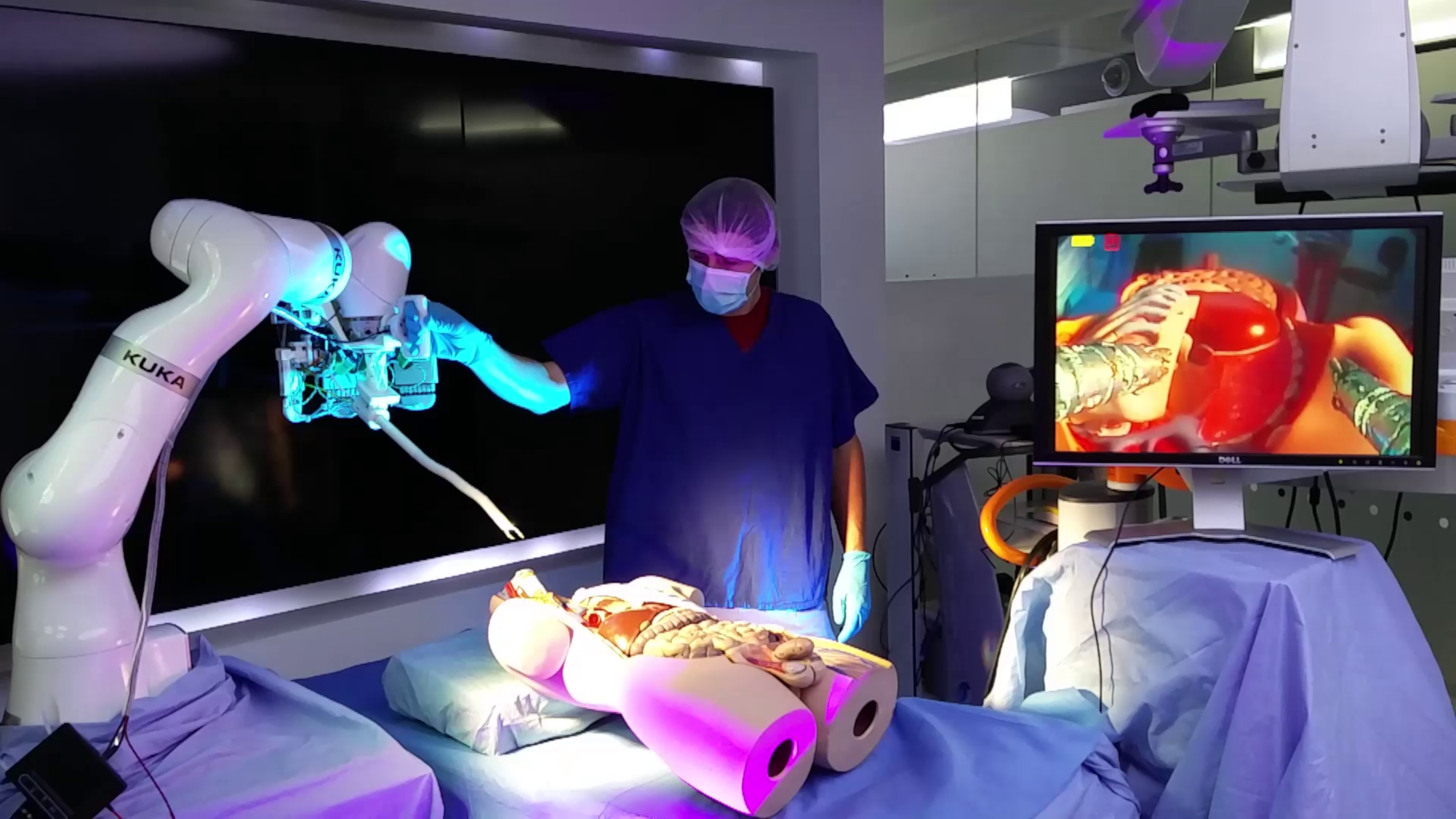 This picture shows a prototype of a snake-like robot for endoscopic surgery: The i²Snake. Minimally invasive surgery is a surgical technique that aims to improve patient recovery by using small incisions as opposed to more invasive traditional approaches. Endoscopic surgery takes this concept further by using natural orifices to enter the patient anatomy. In this context, the i²Snake robot [1] is a prototype of an endoscopic robot that can navigate through the mouth and reach deep-seated lesions to perform surgery from the inside. The i²Snake robot consists of a robotic articulated body and is equipped with a camera, light, two miniature robotic arms and a suction/irrigation channel allowing the surgeon to perform surgery remotely. [1] P. Berthet-Rayne, G. Gras, K. Leibrandt, P. Wisanuvej, A. Schmitz, C. A. Seneci, and G.-Z. Yang, “The i2snake robotic platform for endoscopic surgery.” Annals of Biomedical Engineering, 2018.